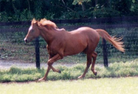 Air Jihad Date Taken: September 23, 2000 Place Taken: Sutarionsuteshon Yashirodai (general location can be taken) Photographer: Goki